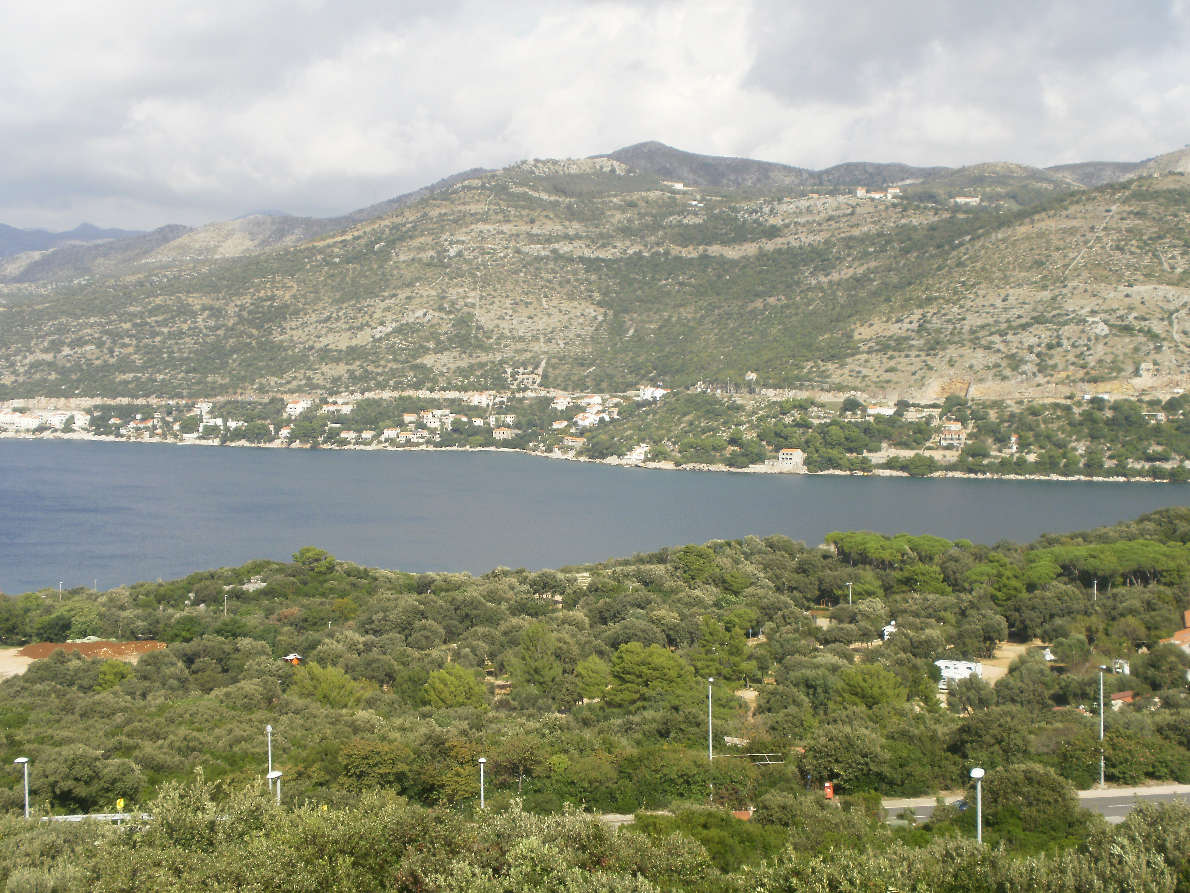 Lozica as seen from Lapad